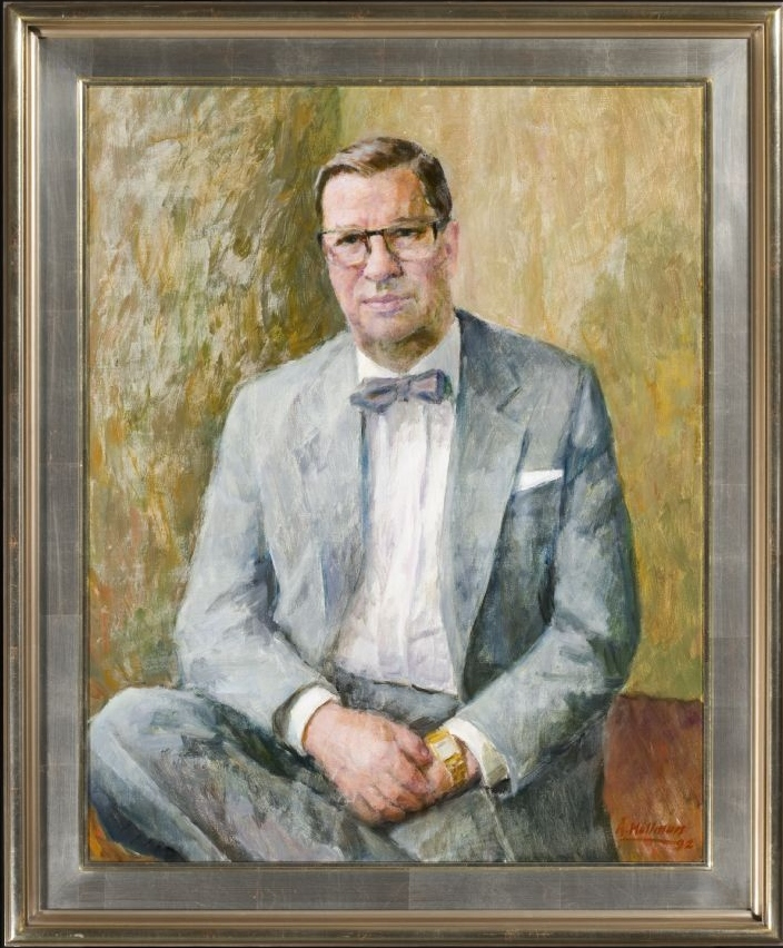 Portrait of the Finnish engineer and professor Paul A. Wuori (1933–2015).